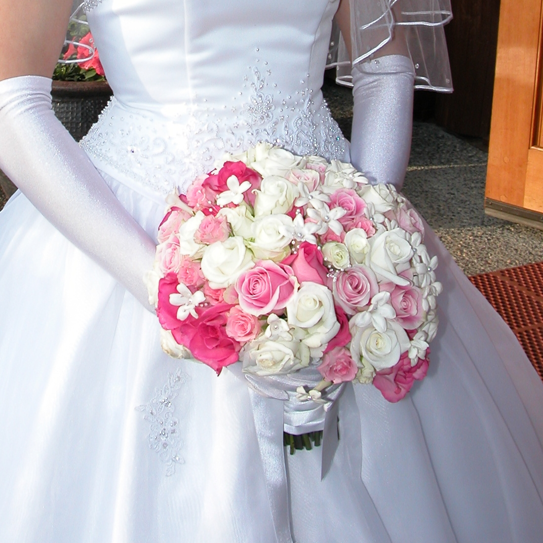 Bridal bouquet of roses and Stephanotis flowers